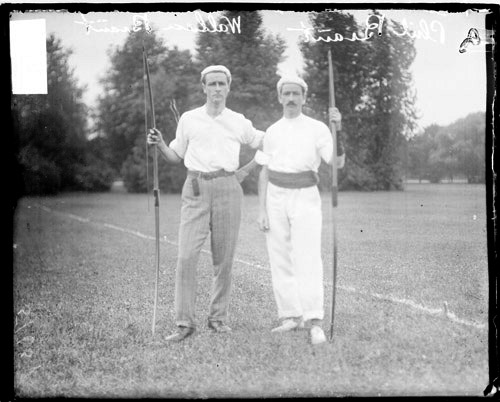 Archers Wallace Bryant (left) and George Phillip Bryant (right). Chicago Daily News negatives collection, SDN-051657. Courtesy of the Chicago Historical Society. Taken in 1906 (